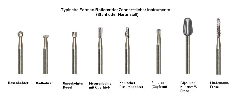 Dental burrs (steel)